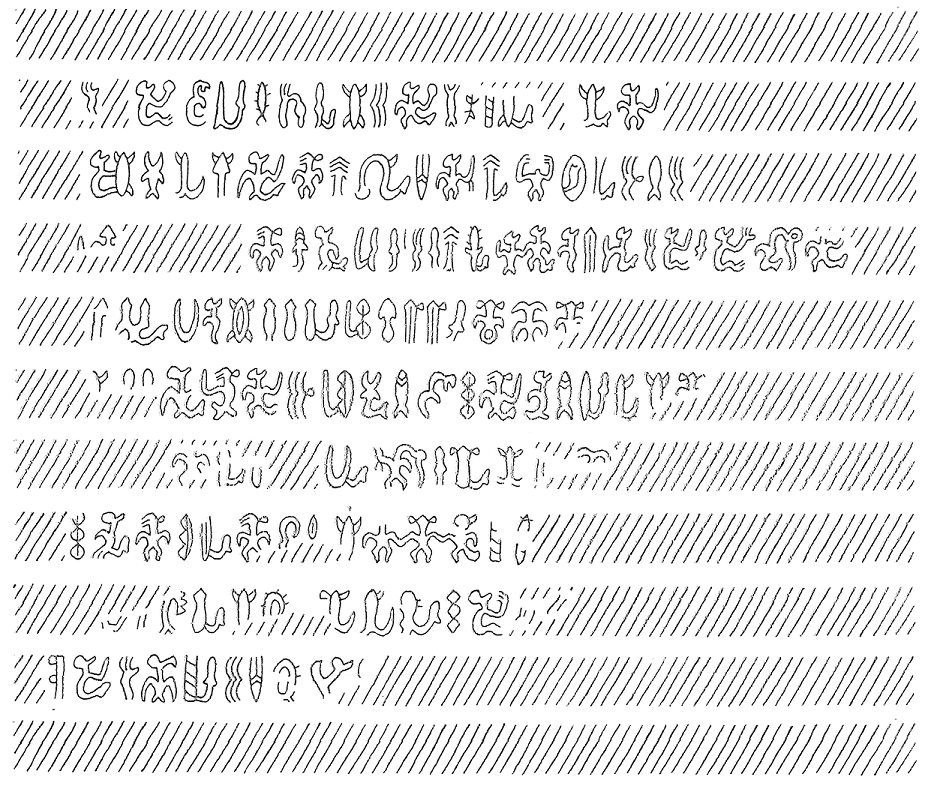 Barthel's tracing of rongorongo tablet T, side a